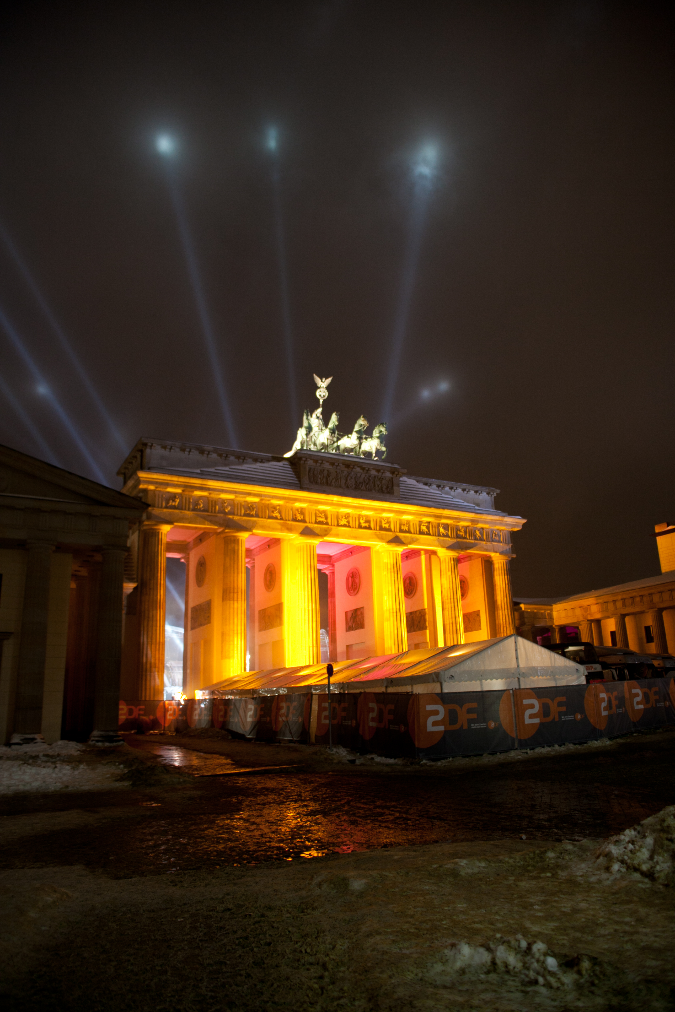 Fireworks during S. Silvester 2010 at the Brandenburg Tor